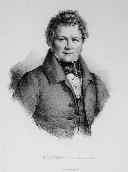 Karl Friedrich von Closen (1786-1856), bay. Jurist und Politiker